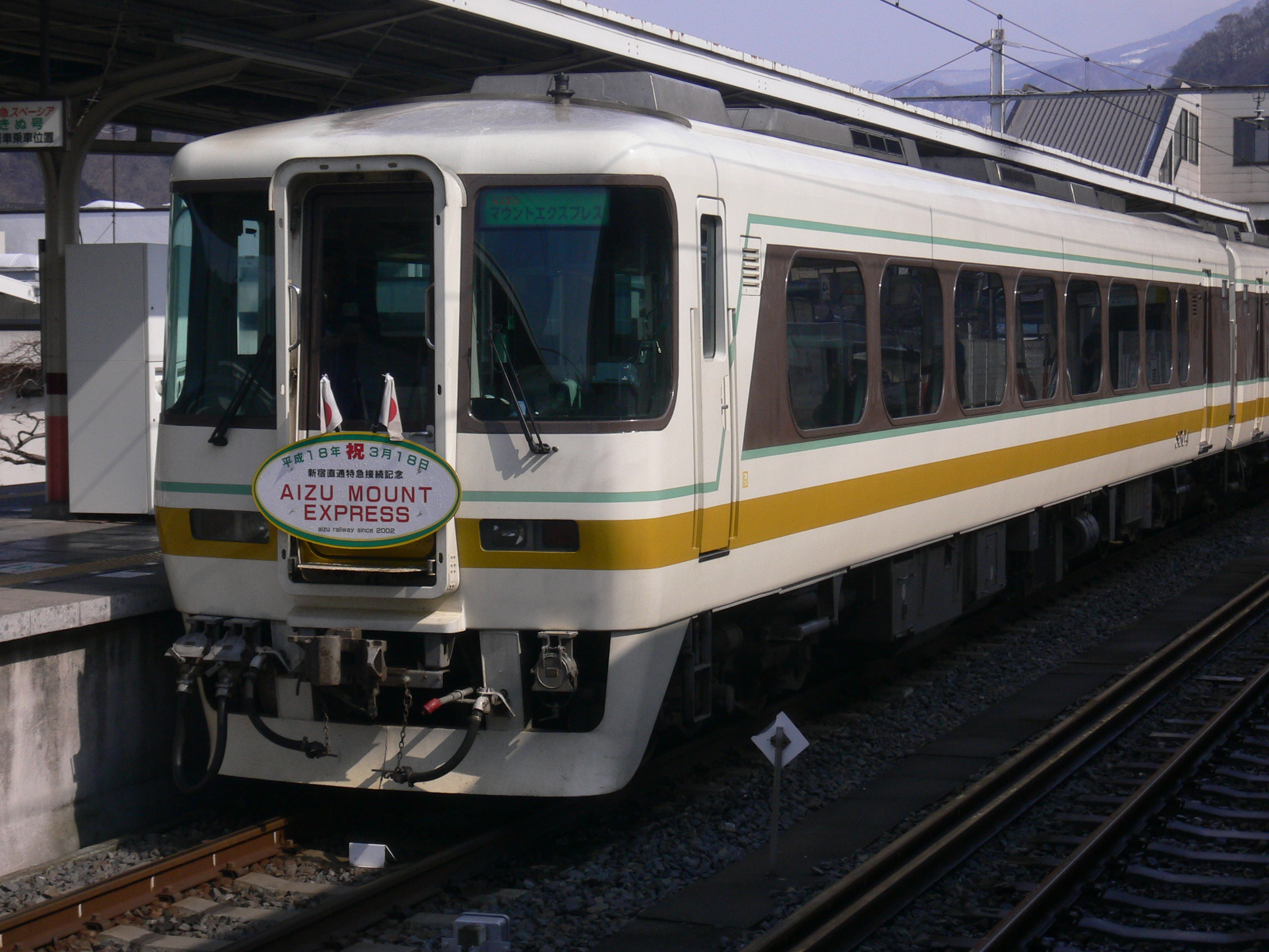 Kinugawa Onsen Station (鬼怒川温泉駅), Nikko, Tochigi P.